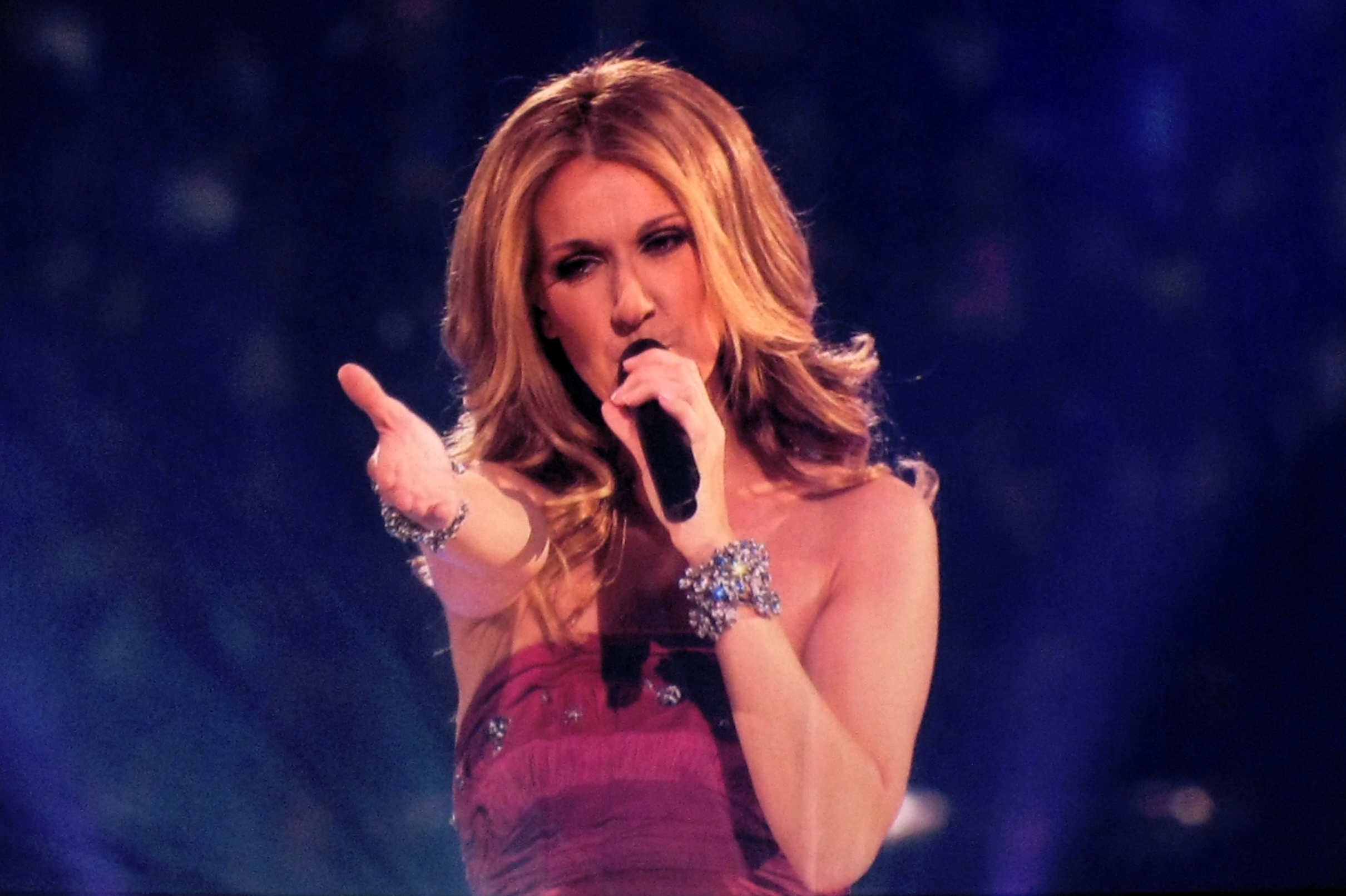 Celine Dion performing "Taking Chances" at Celine Dion 'Taking Chances Tour' Concert @ Bell Centre, Montreal, Canada in August, 2008.